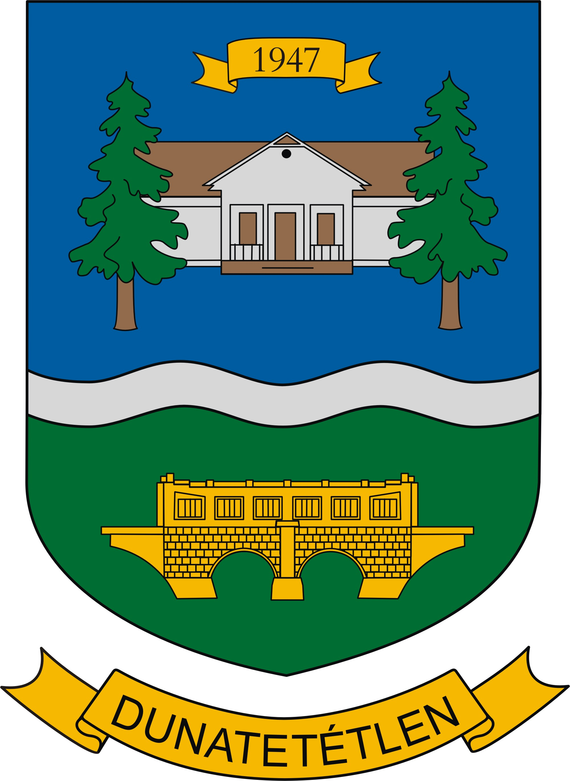 Coat of arms of Dunatetétlen, Hungary